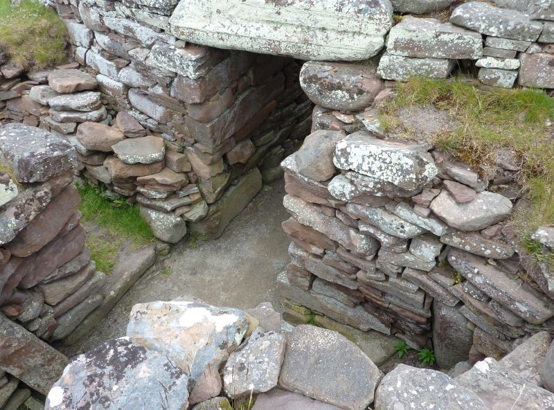 Carn Liath, a broch in Sutherland, Scotland